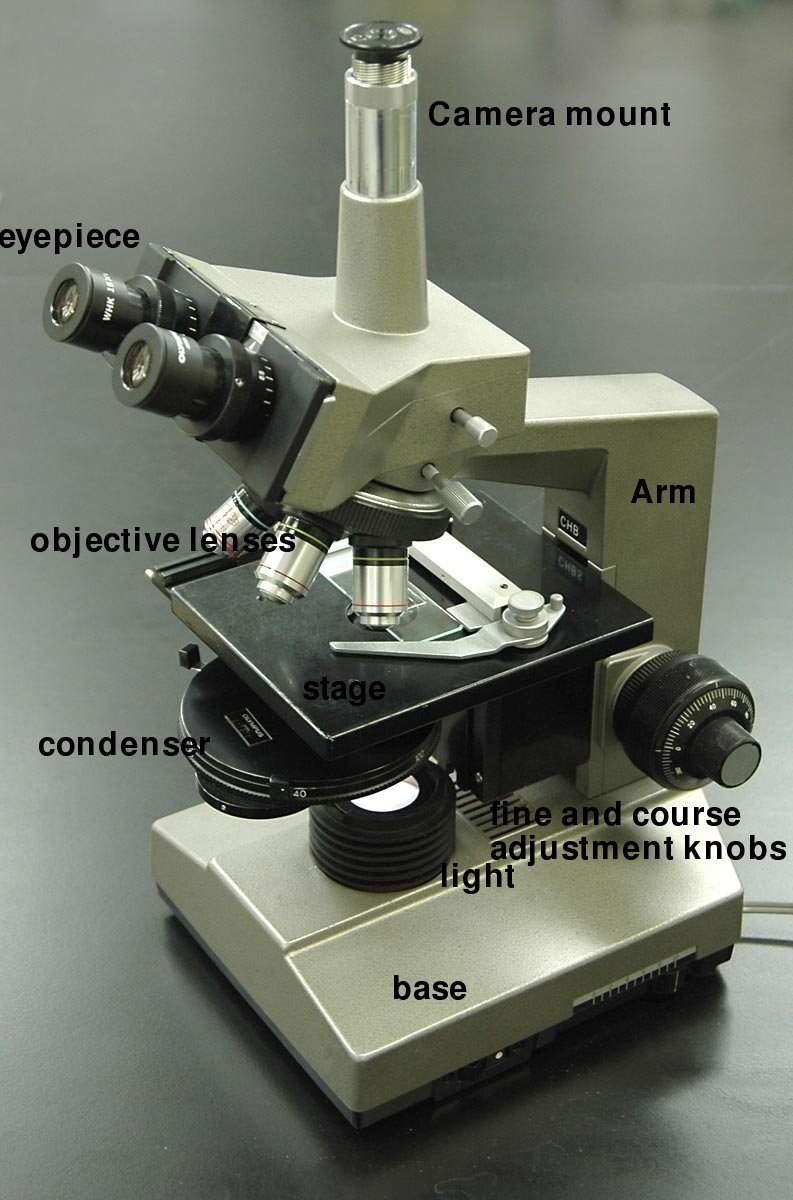 I modified an image from Wikimedia commons called Phase contrast microscope.jpg. The original license for this work was "public domain (by own work)". GcG said so, and so say I.